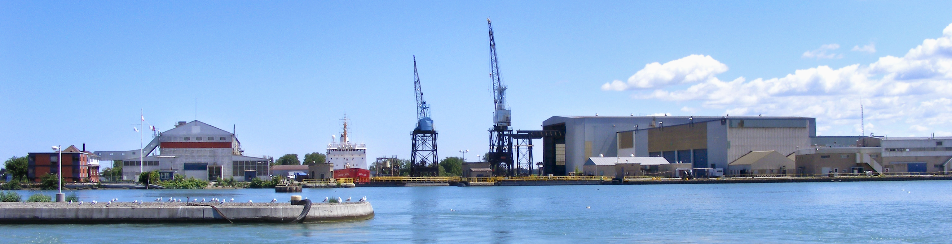 Seaway Marine & Industrial Inc. (Port Weller Drydocks), with CCGS Martha L. Black docked.